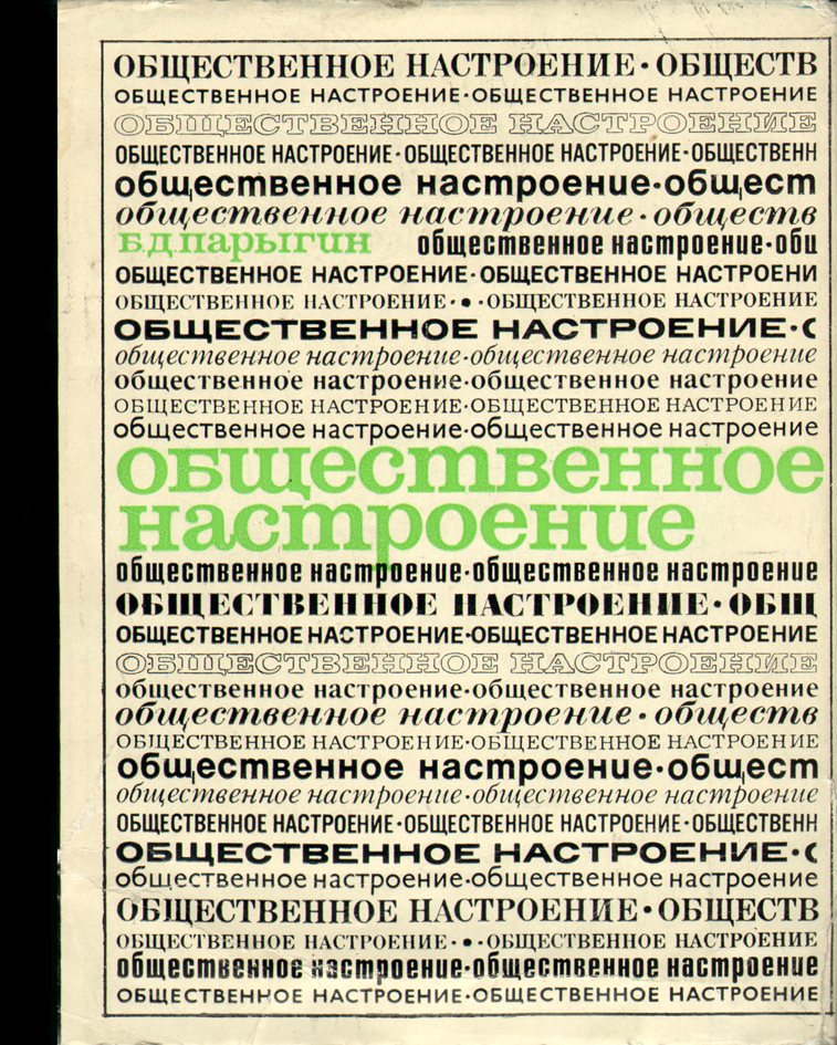 Boris Parygin. Public Mood. Moscow. Book cover.